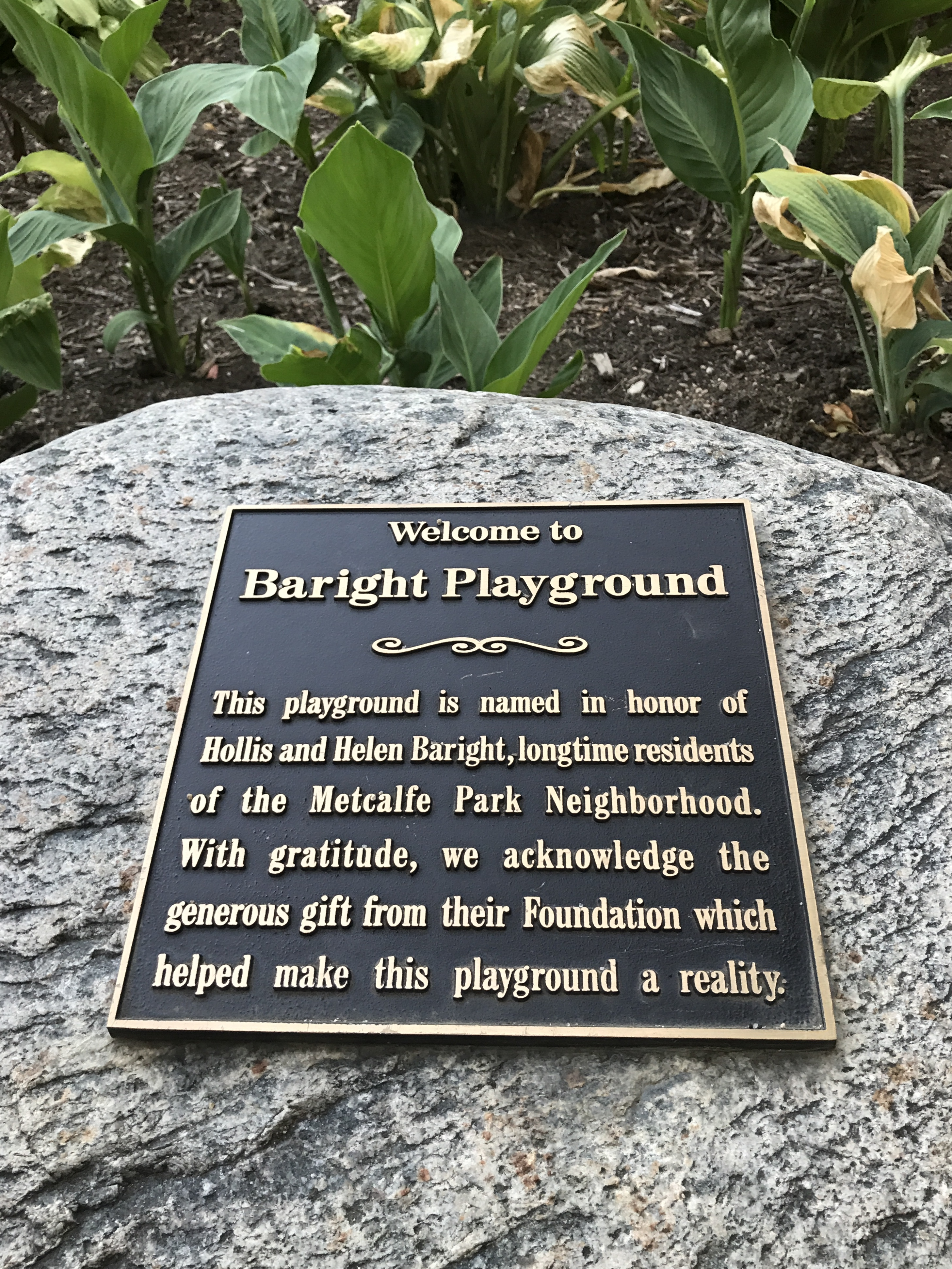 A brass plaque mounted on a rock that says: Welcome to Baright Playground. This playground is named in honor of Hollis and Helen Baright, longtime residents of the Metcalfe Park Neighborhood. With gratitude, we acknowledge the generous gift from their foundation which helped make this playground a reality.